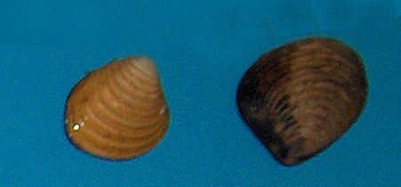 Astarte sulcata, a bivalve shell from the family Astartidae